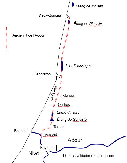 Schema of the former stream bed of the Adour river (South-west of France).